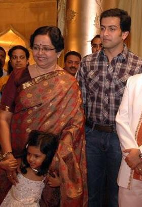 Marriage of actress Kavya Madhavan